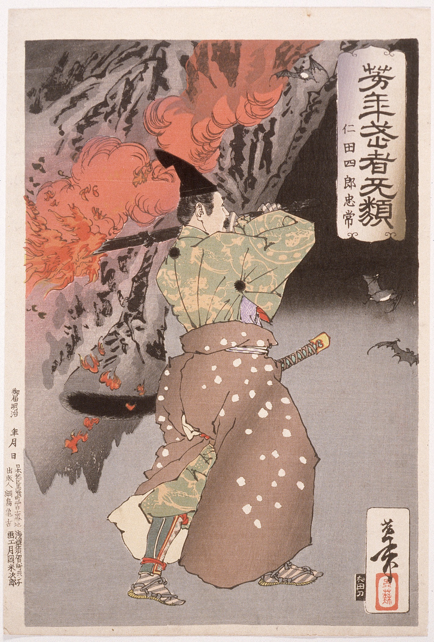 Japan, 1886, 1st month Series: Yoshitoshi's Warriors Trembling with Courage Prints; woodcuts Color woodblock print Herbert R. Cole Collection (M.84.31.98) Japanese Art 1203年、仁田忠常（新田忠常）は源頼家の命令で、富士の人穴探索に行き、穴の中で数々の不思議な出来事にあう、という『吾妻鏡』『御伽草子』などで語られる逸話を描いたもの。右手にコウモリが飛び交う。